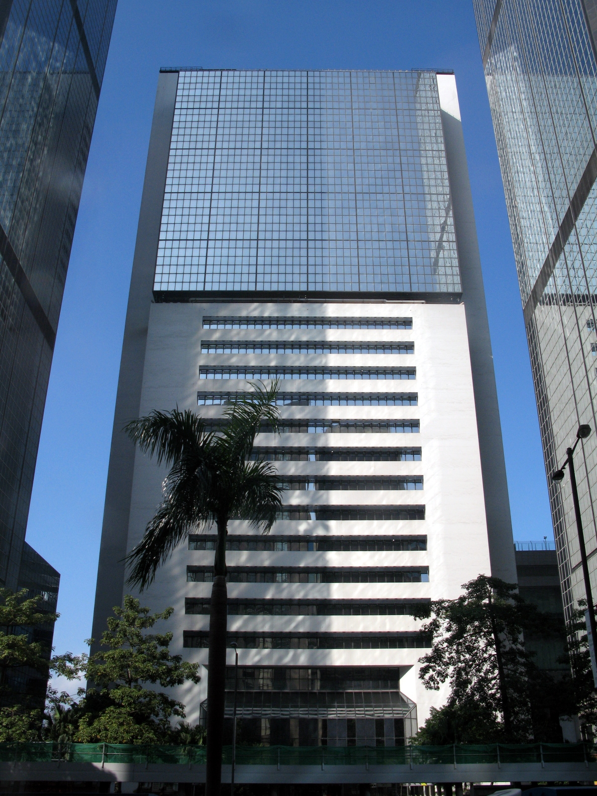 Wan Chai Tower 灣仔政府大樓